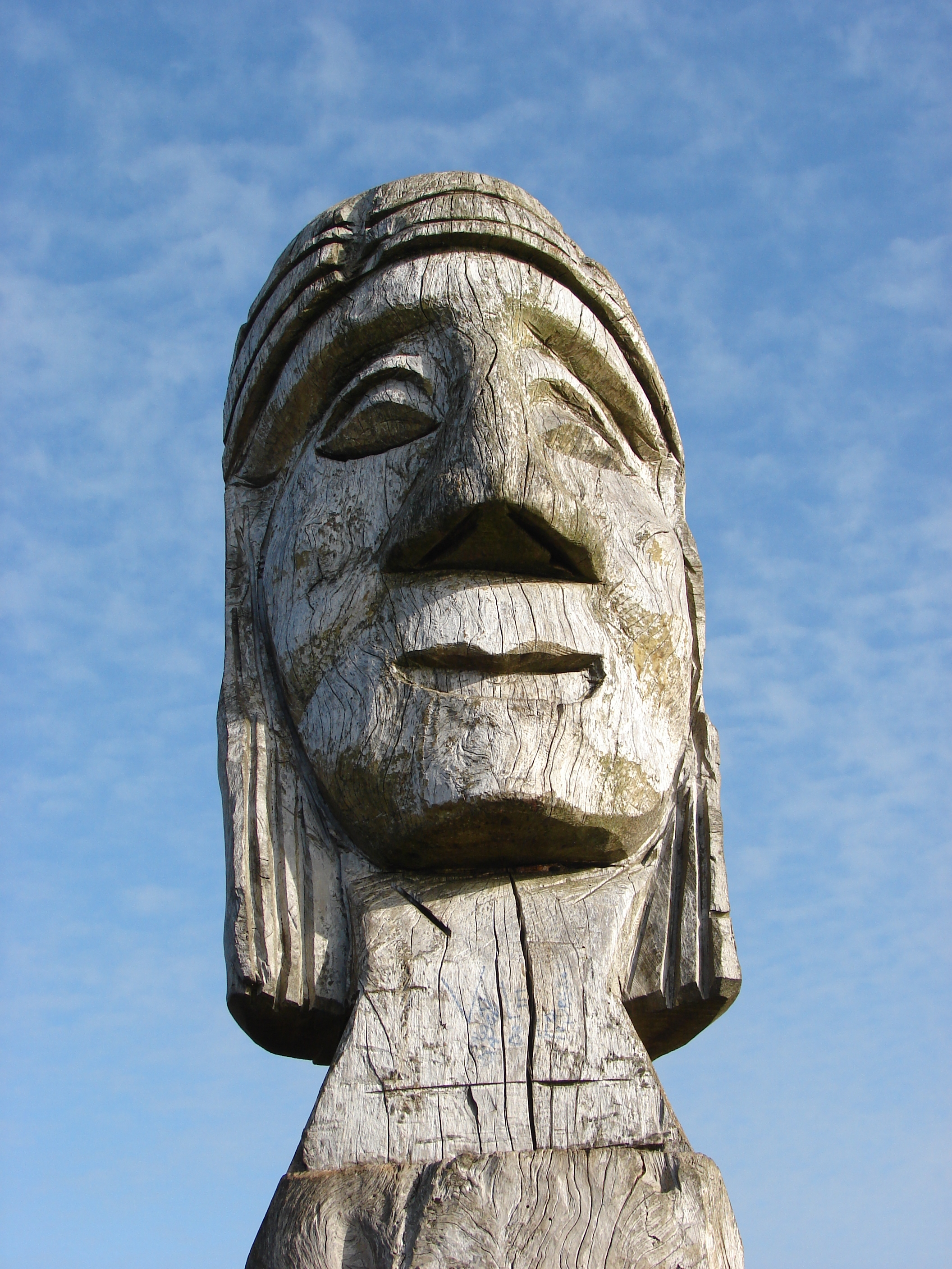 A closeup of the wooden totem at the Cerro Maule lookout point ("mirador") near Puerto Saavedra, Chile on Feb 16, 2009.